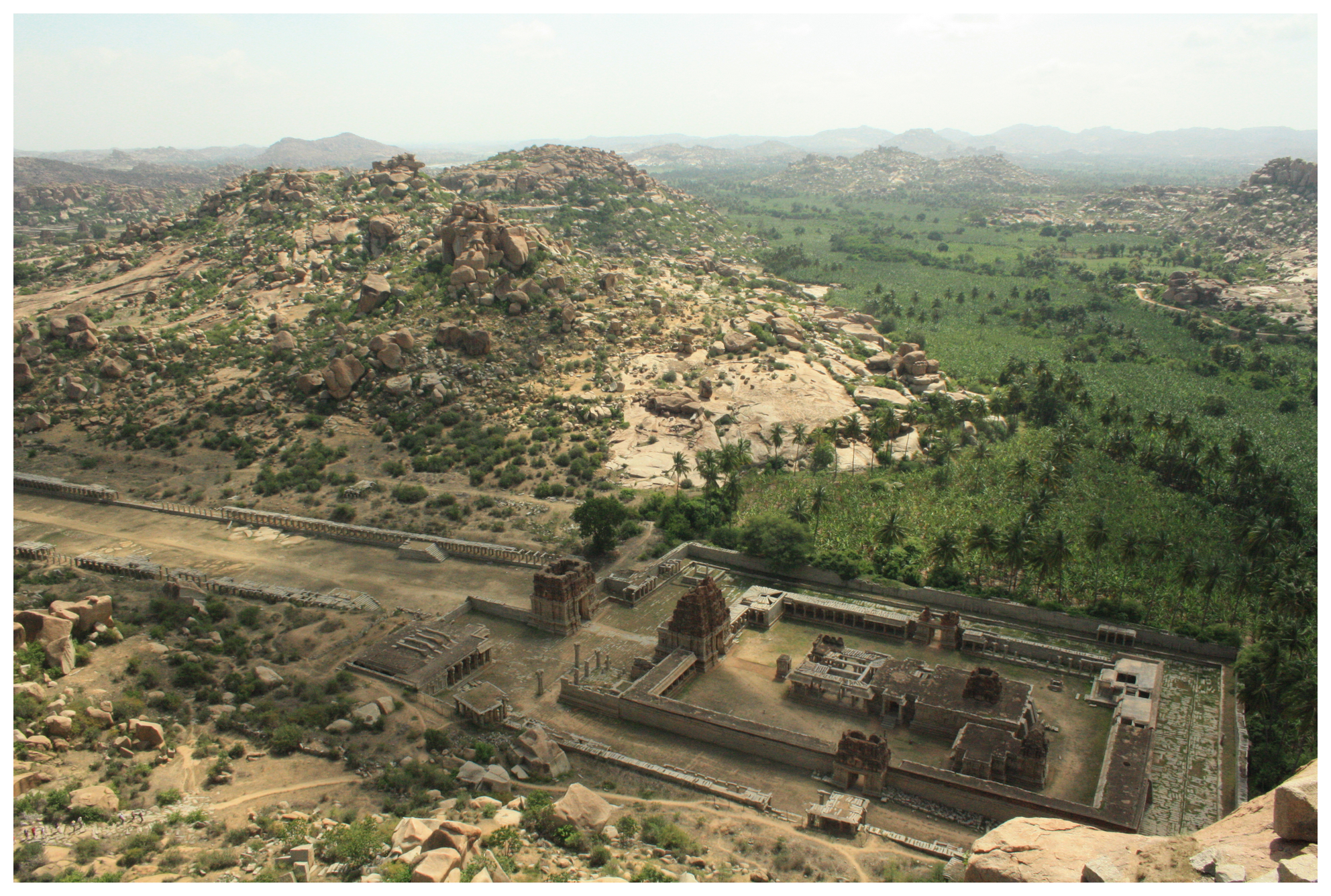 Achyutaraya (Triuvengalantha) Temple